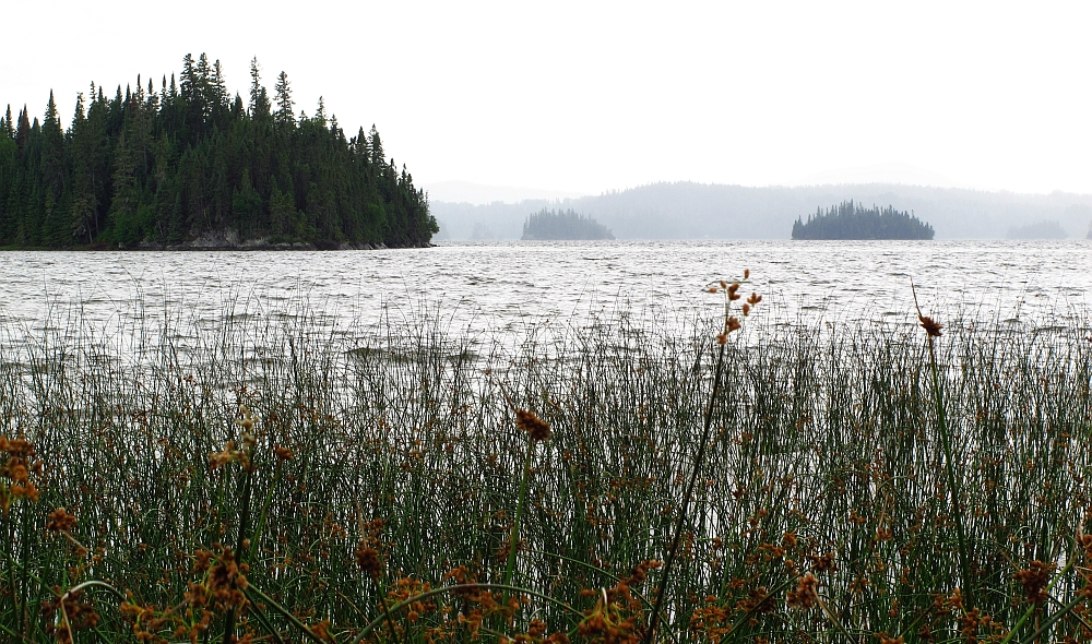 A view of Lake Hebecourt, Quebec, from Chemin Lac Hébécourt, south of Route 388.